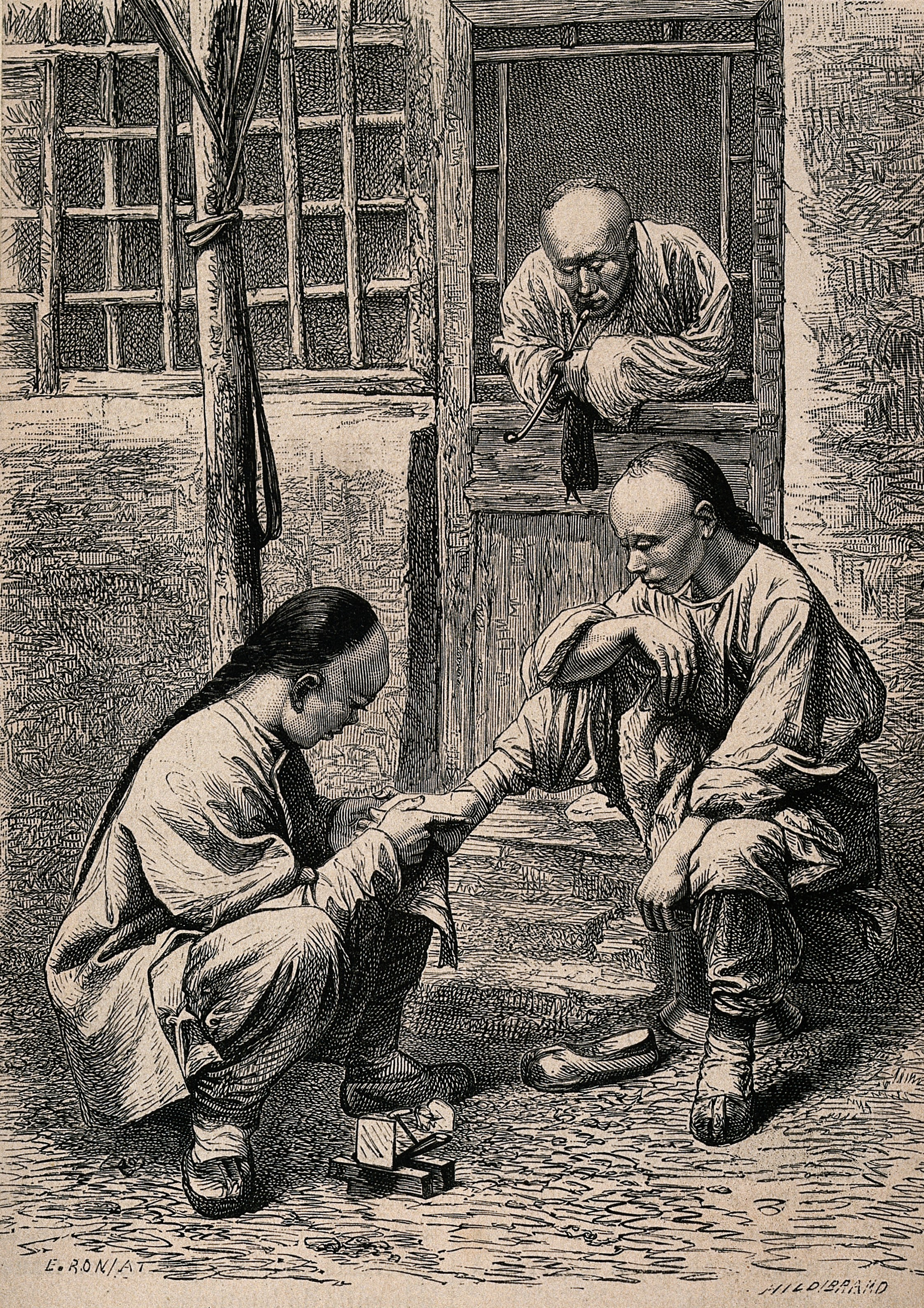 A travelling chiropodist tending to a male patient's foot, China. Wood engraving by T.H. Hildibrand after E. Ronjat after J. Thomson. Iconographic Collections Keywords: Chiropody; John Thomson; Etienne Antoine Eugène Ronjat; China; Smoking; Henri-Théophile Hildibrand